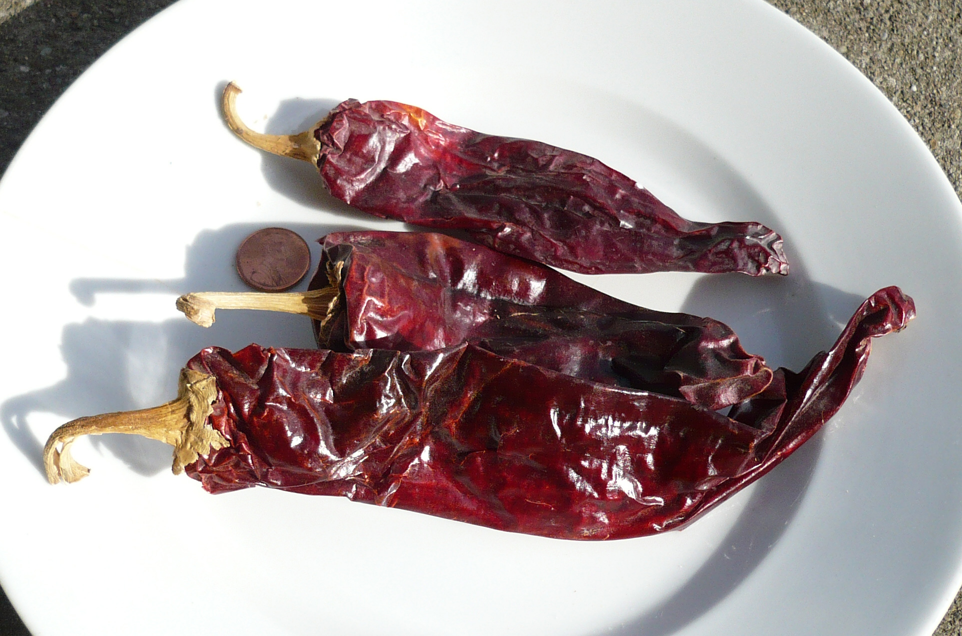 Dried red California (Anaheim) chili peppers. Photo taken in Kent, Ohio with a Panasonic Lumix digital camera (model DMC-LS75). Dried red California chili peppers purchased from a northeast Ohio-area Mexican grocery store.